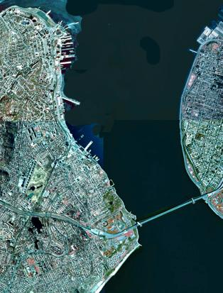 The Narrows shown in an NYSGIS satellite photo.